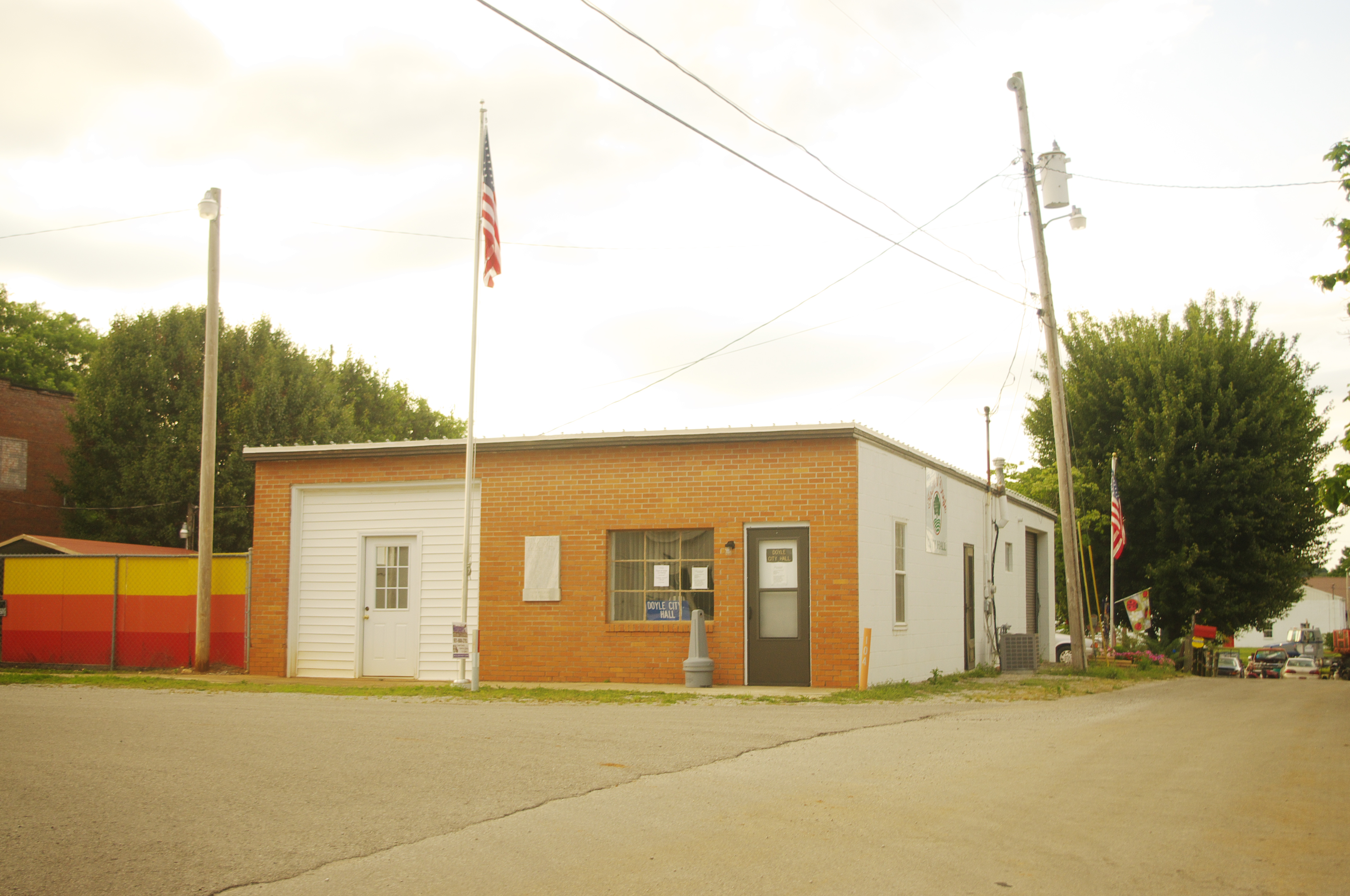 The city hall of Doyle, Tennessee, USA.